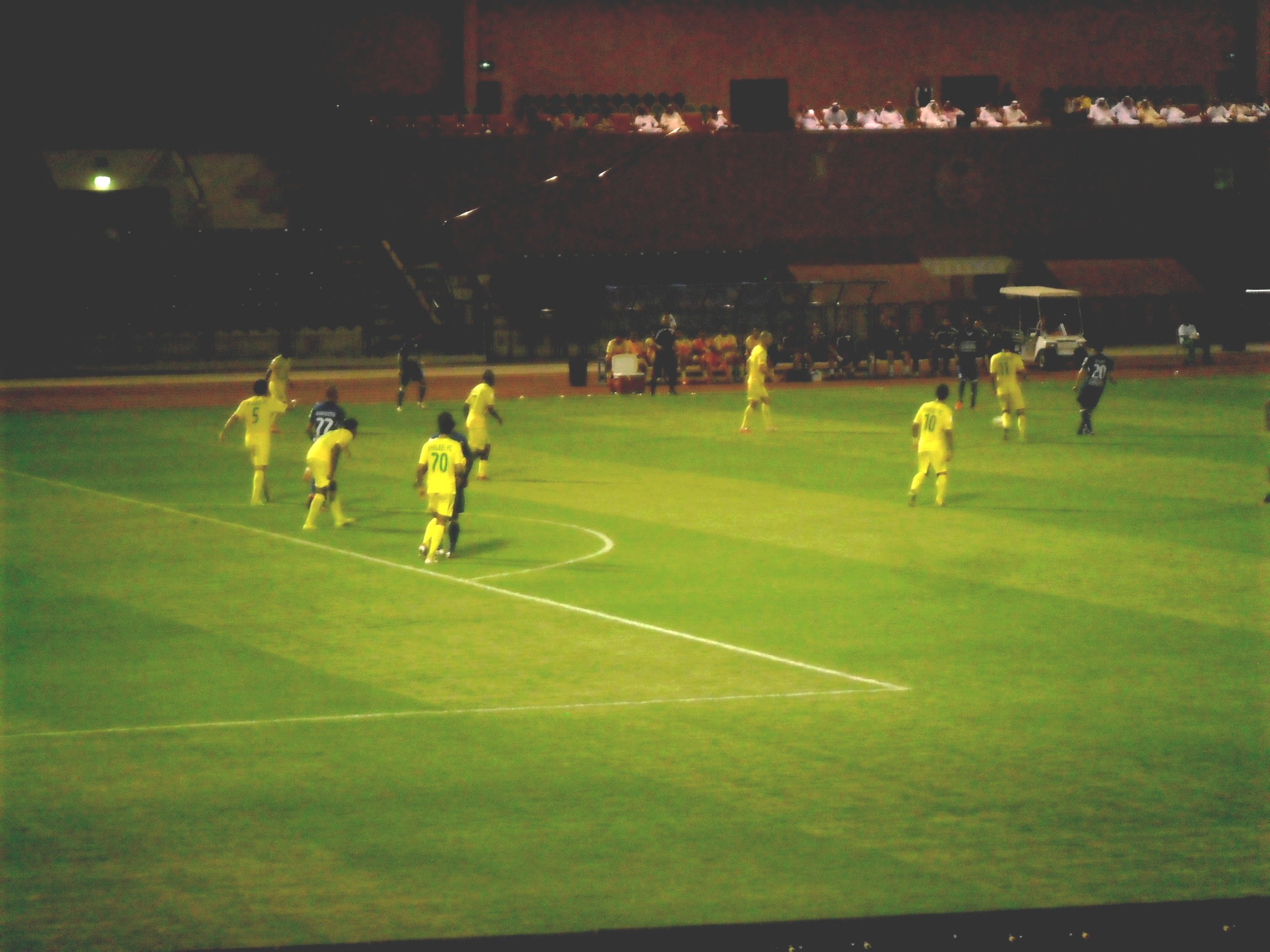 Al-Khaleej vs Al-Shoalah on Round 2, Abdullatif Jameel League 2014-2015, Results 1-1.